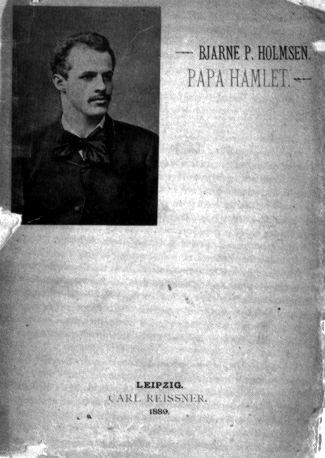 front cover by Bjarne P. Holmsen: Papa Hamlet with photograph of Arno Holz († 1929)